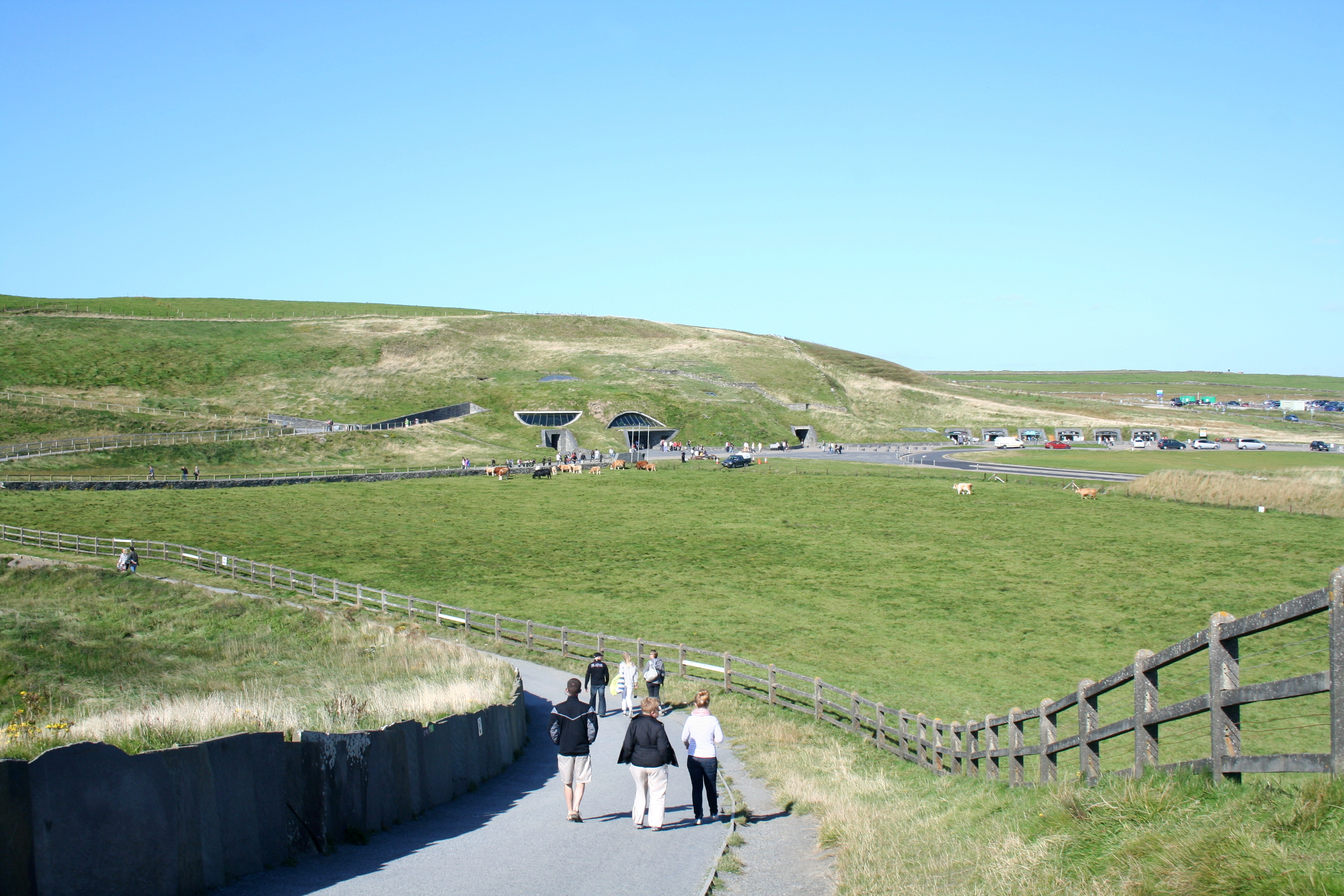 Visitors Center Cliffs of Moher, County Clare, Ireland